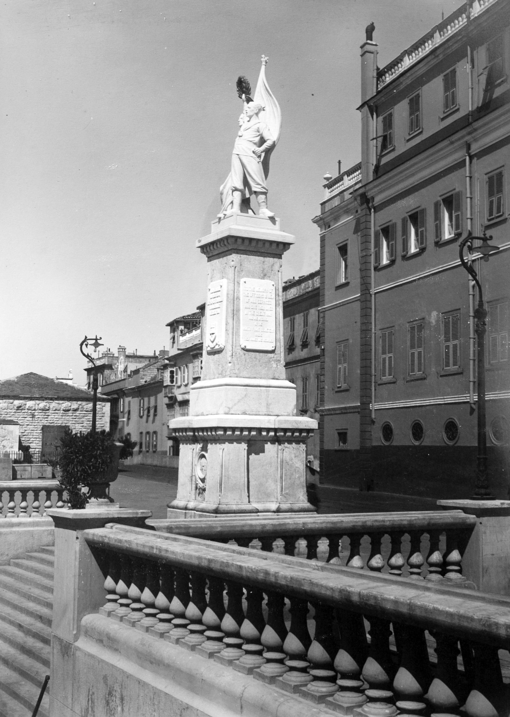 War memorial